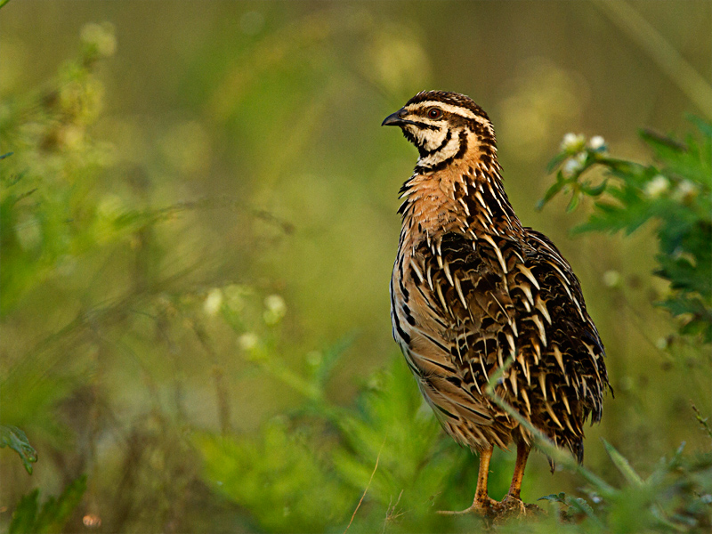 A male Rain Quail at Hesaraghatta, Bangalore